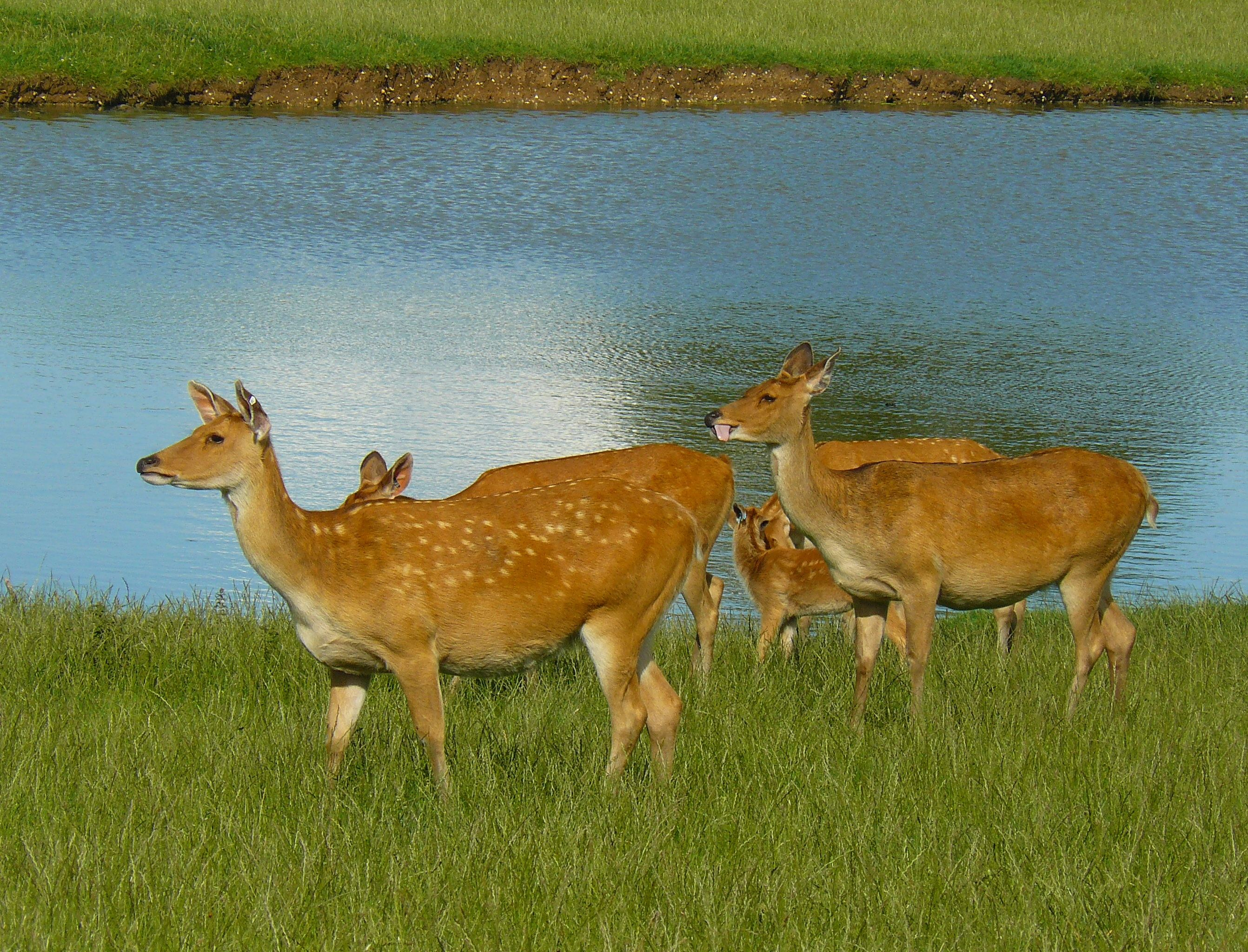 Female Barasinghas (Rucervus duvaucelii duvaucelii) at Whipsnade Zoo, UK